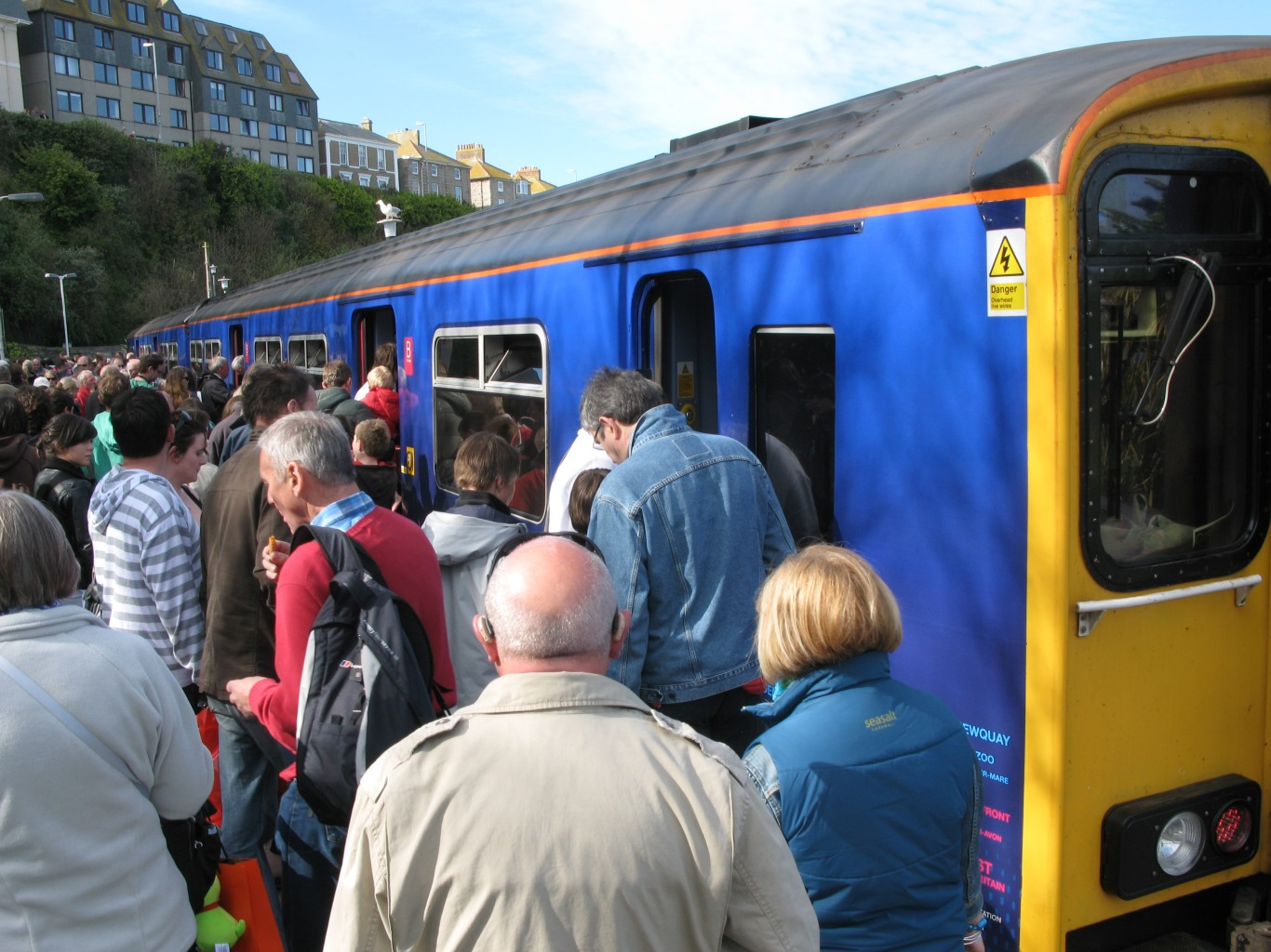 Passengers crowd on board First Great Western 150261 at St Ives station, Cornwall, United Kingdom. The train has just arrived from St Erth and will return there once the driver has fought his way through the crowd to his cab.